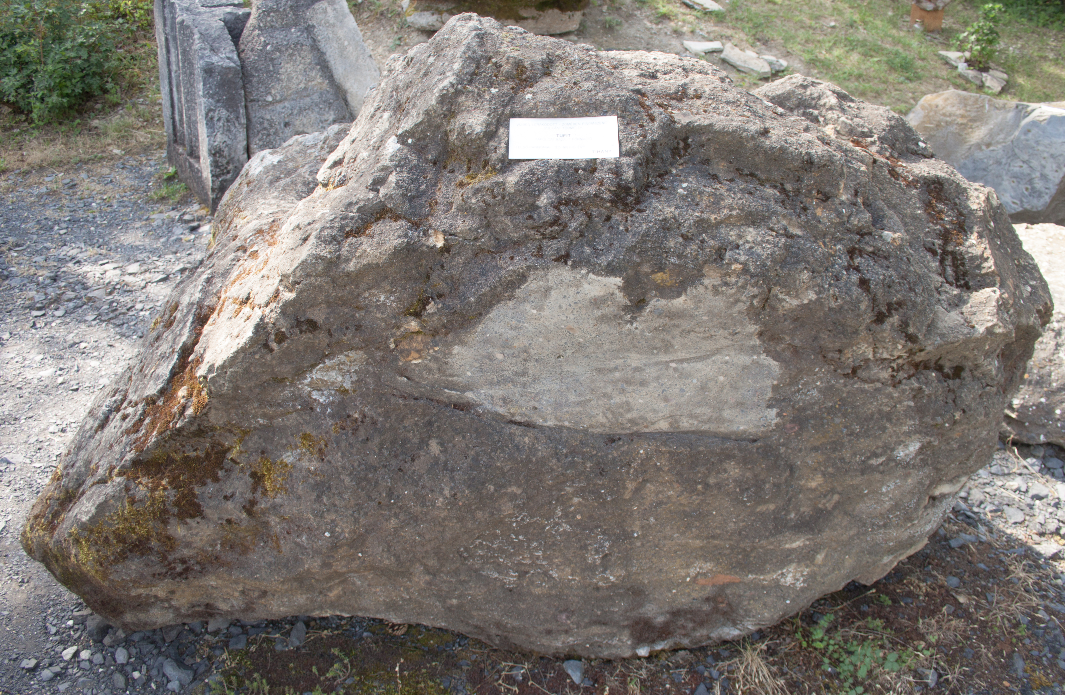 Tuffite from Tihany, Hungary. This rock is of Late Pannonian (Pliocene) age, formed 3.5 million years ago. Tuffite is a type of tuff. This rock is on display at the Hungarian rocks collection at Hegyestű Geological Interpretive Site near Monoszló, in Bakony-Balaton Geopark, Hungary.